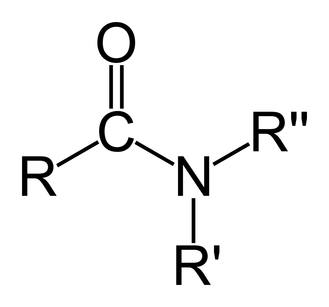 Description: Structural formula of a general amide group (RCONR'R ). Author, date of creation: self made by Ben Mills at 17:12, 8 March 2006 (UTC). Source: user-created image Comments: high-resolution black and white PNG; ChemDraw / Photoshop.